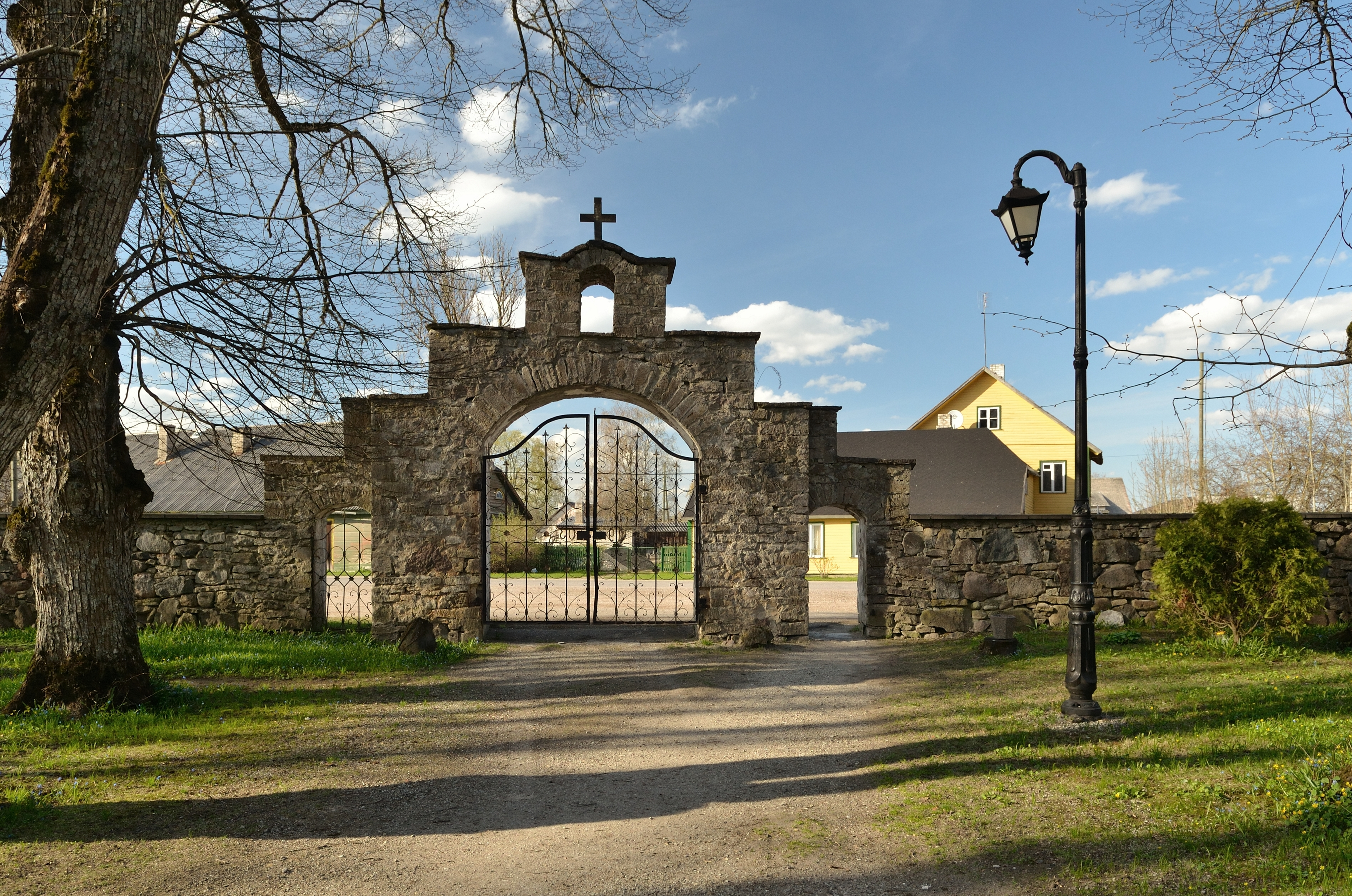 Ambla churchyard enclosure wall